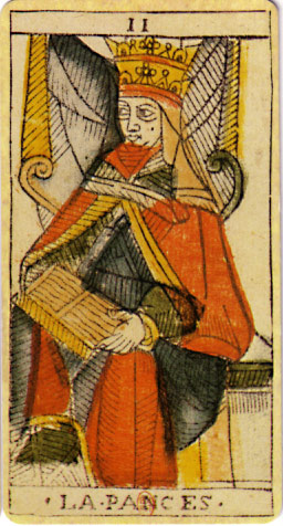 An original card from the tarot deck of Jean Dodal of Lyon, a classic Tarot of Marseilles deck which dates from 1701-1715.